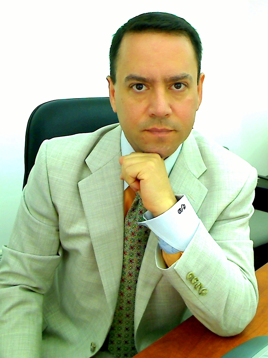 Image of Don Figer